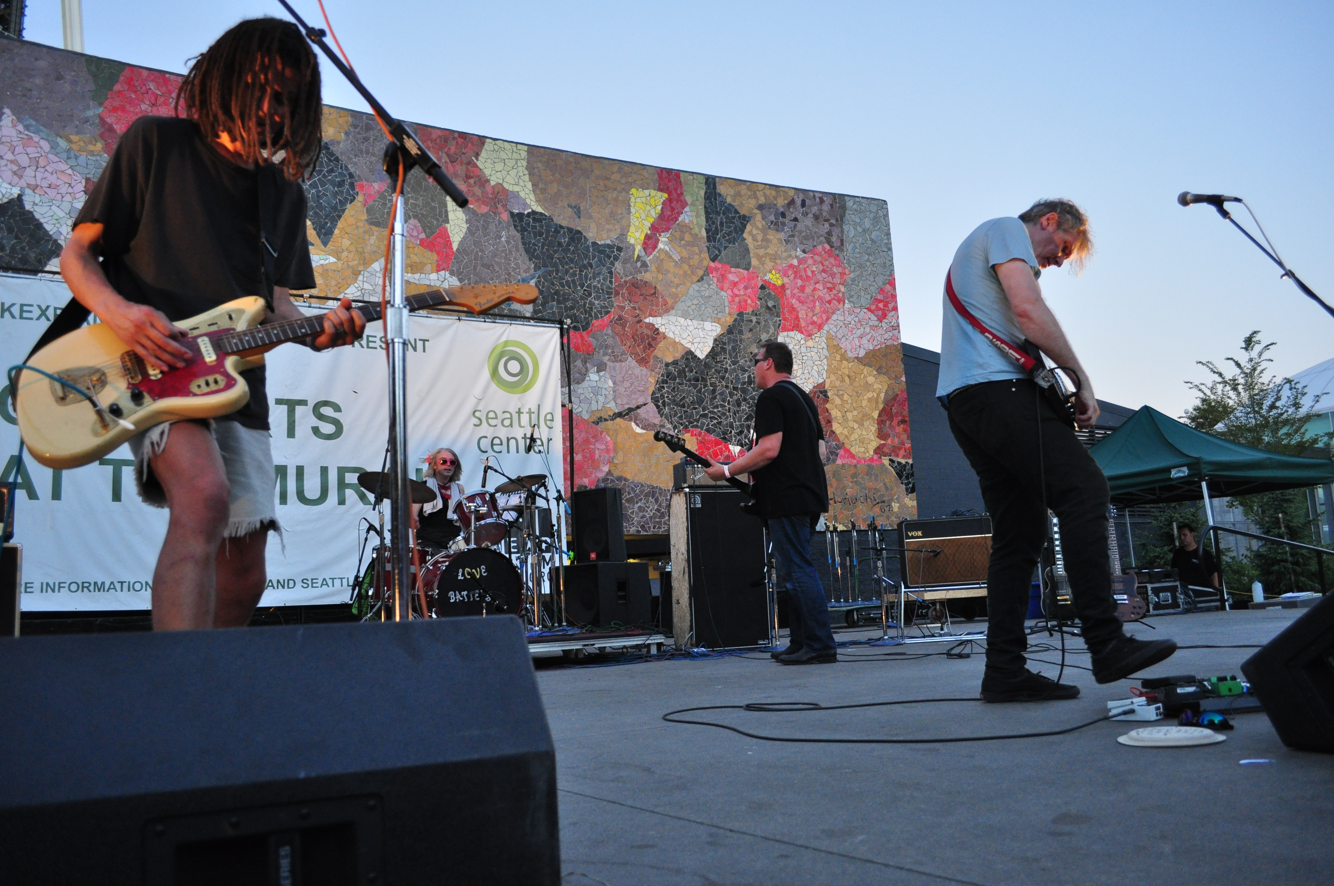 Love Battery, a band from Seattle, Washington, USA performing at the Mural Amphitheatre, Seattle Center.